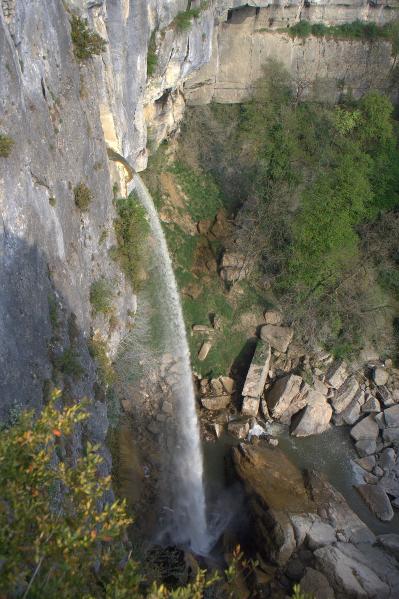 Cerveyrieu waterfall and Séran river